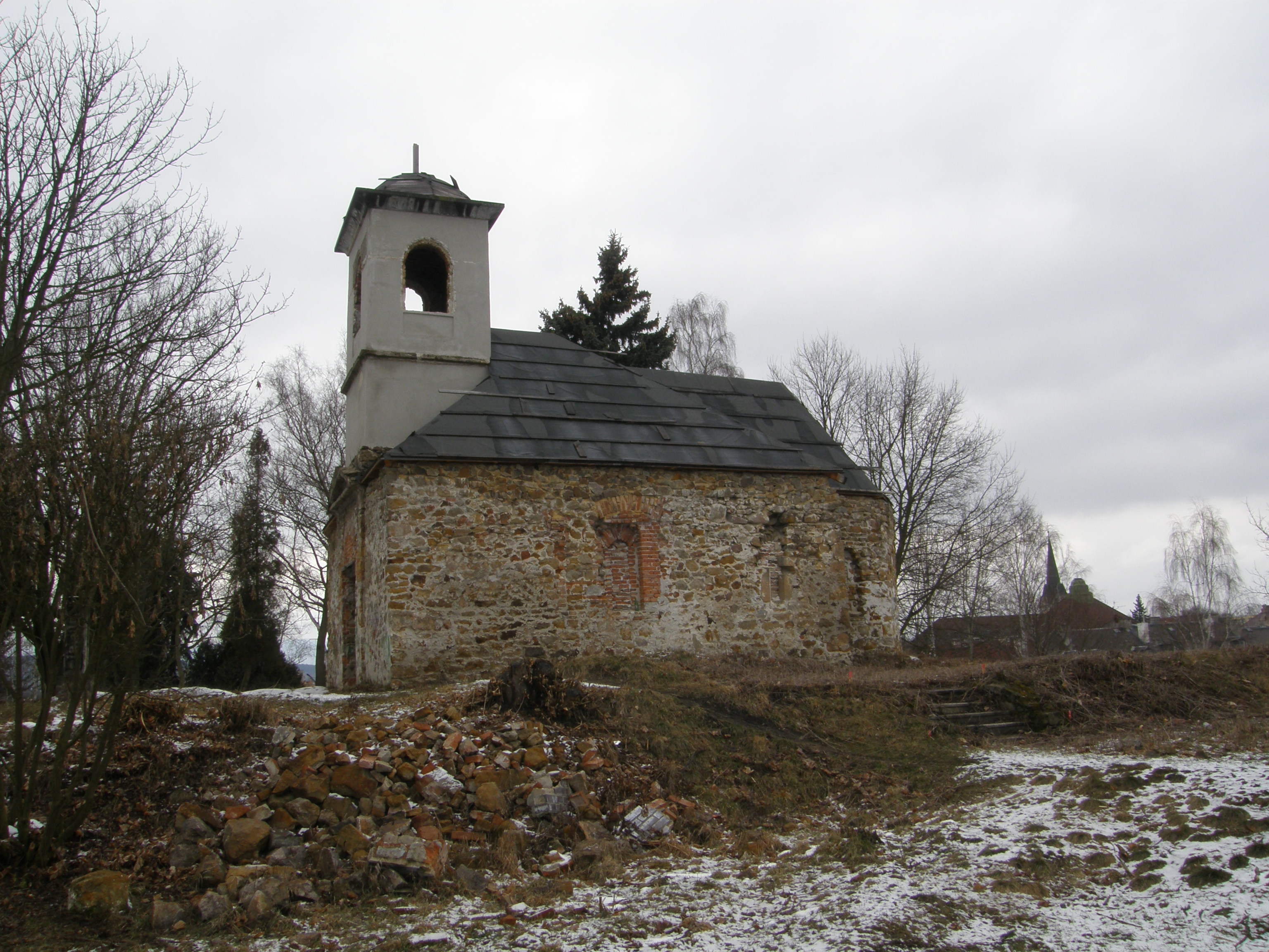 St. Urban church in Karlovy Vary-Rybáře